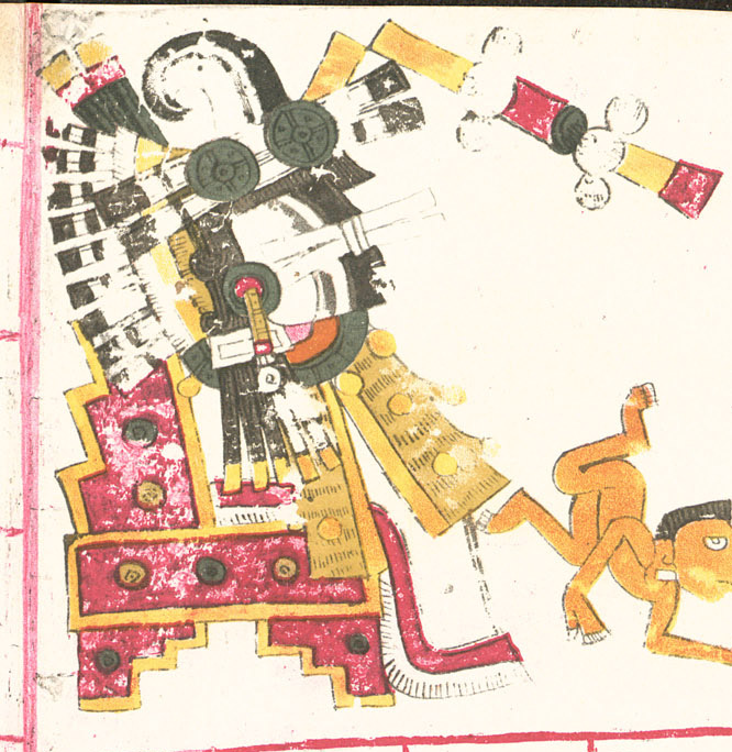 A drawing of Itzlacoliuhque, one of the deities described in the Codex Borgia